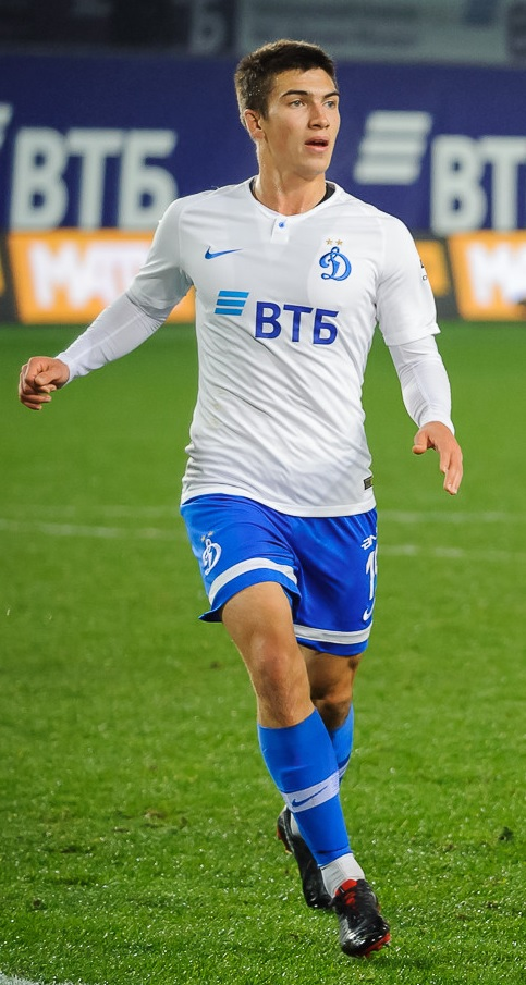 Vladimir Moskvichyov with FC Dynamo Moscow in a game against PFC CSKA Moscow.